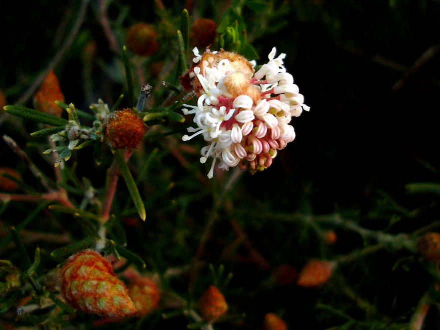 Grevillea crithmifolia